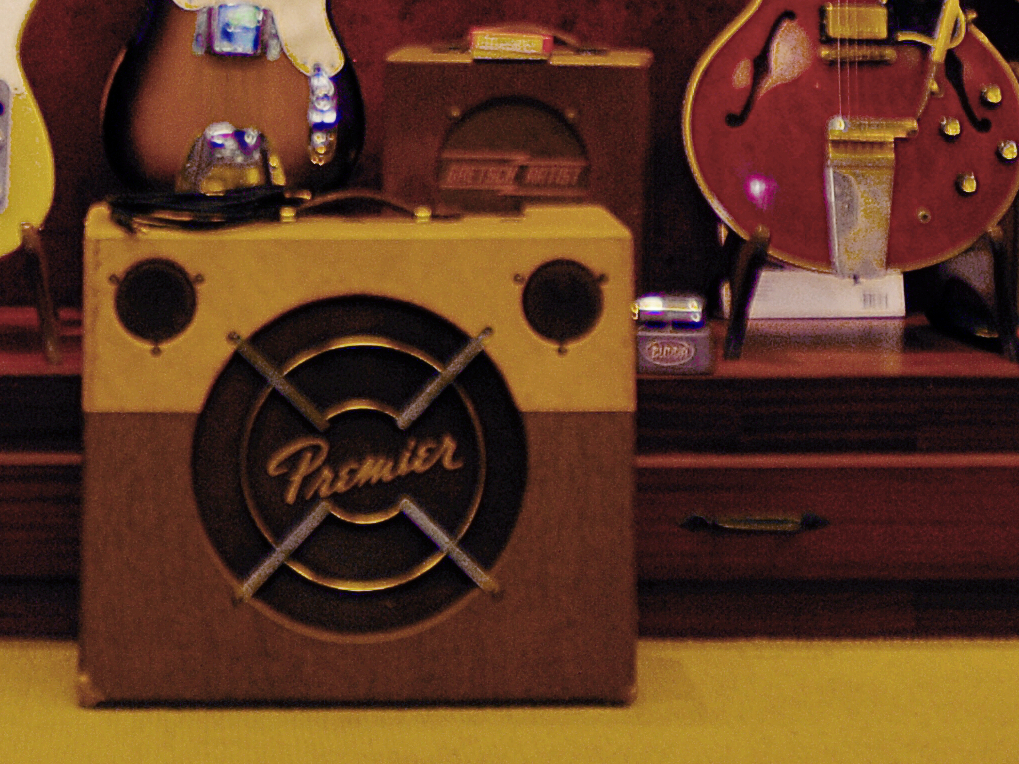 Rumble Seat Music Vintage Guitars - Carmel, CA